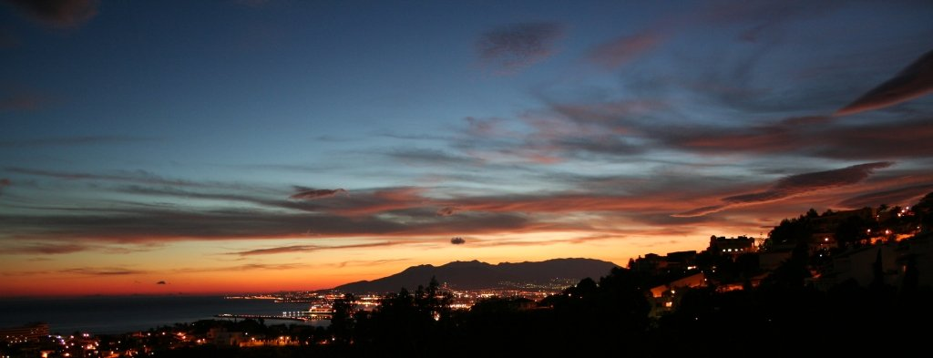 Sunset in Malaga, Spain.